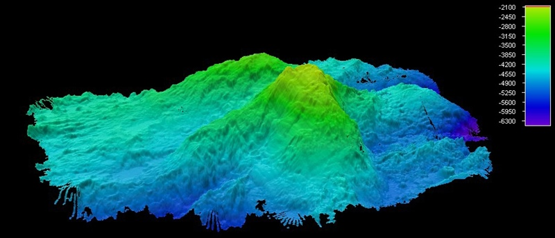 An overall perspective of the multibeam sonar data collected over the Mid-Cayman Rise by the Okeanos Explorer. The perspective is looking west-north-west, andMount Dent is seen in the foreground.